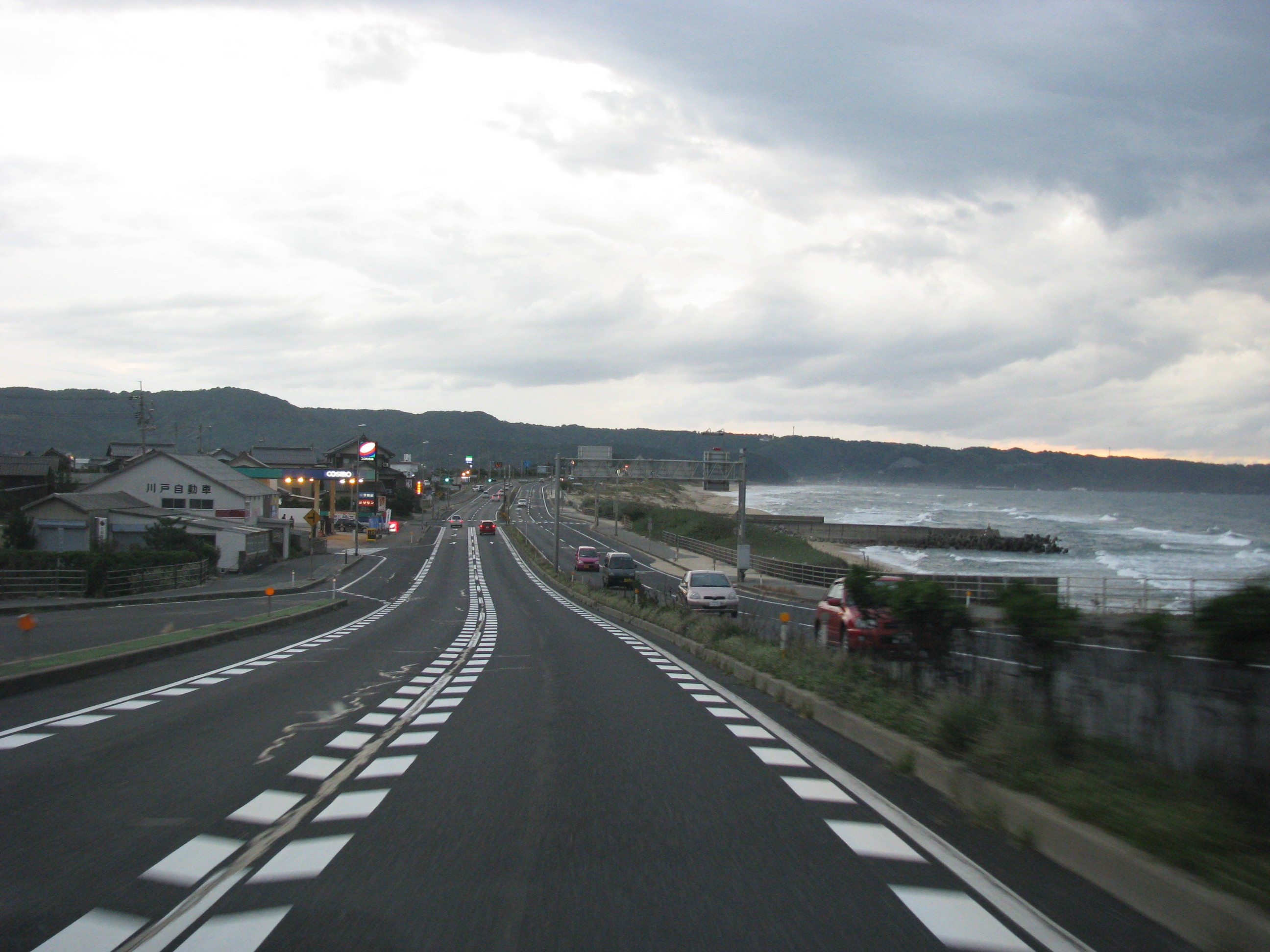 The Japan National Route 9. This place is Tottori, Tottori Prefecture, Japan.